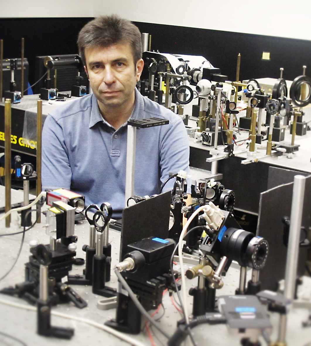 Pablo Artal Soriano, optical physicist.